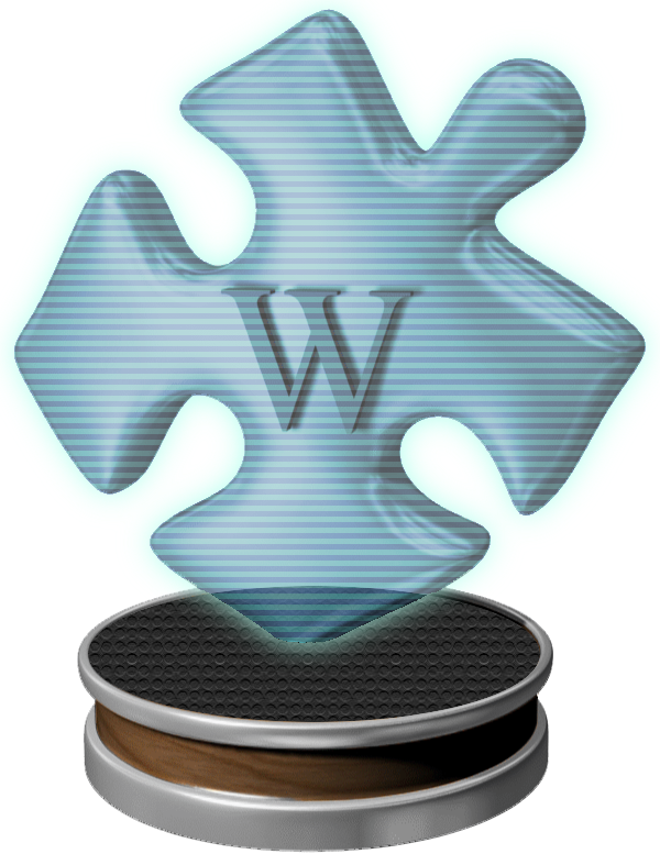 Wikiconcours icon ; sci-fi variation proposition (Star Wars hologram)